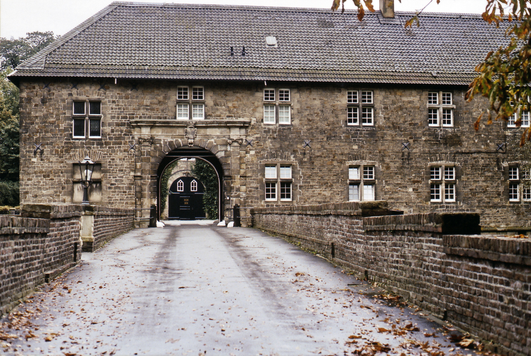 Hugenpoet Castle, Essen-Kettwig - Vorburg